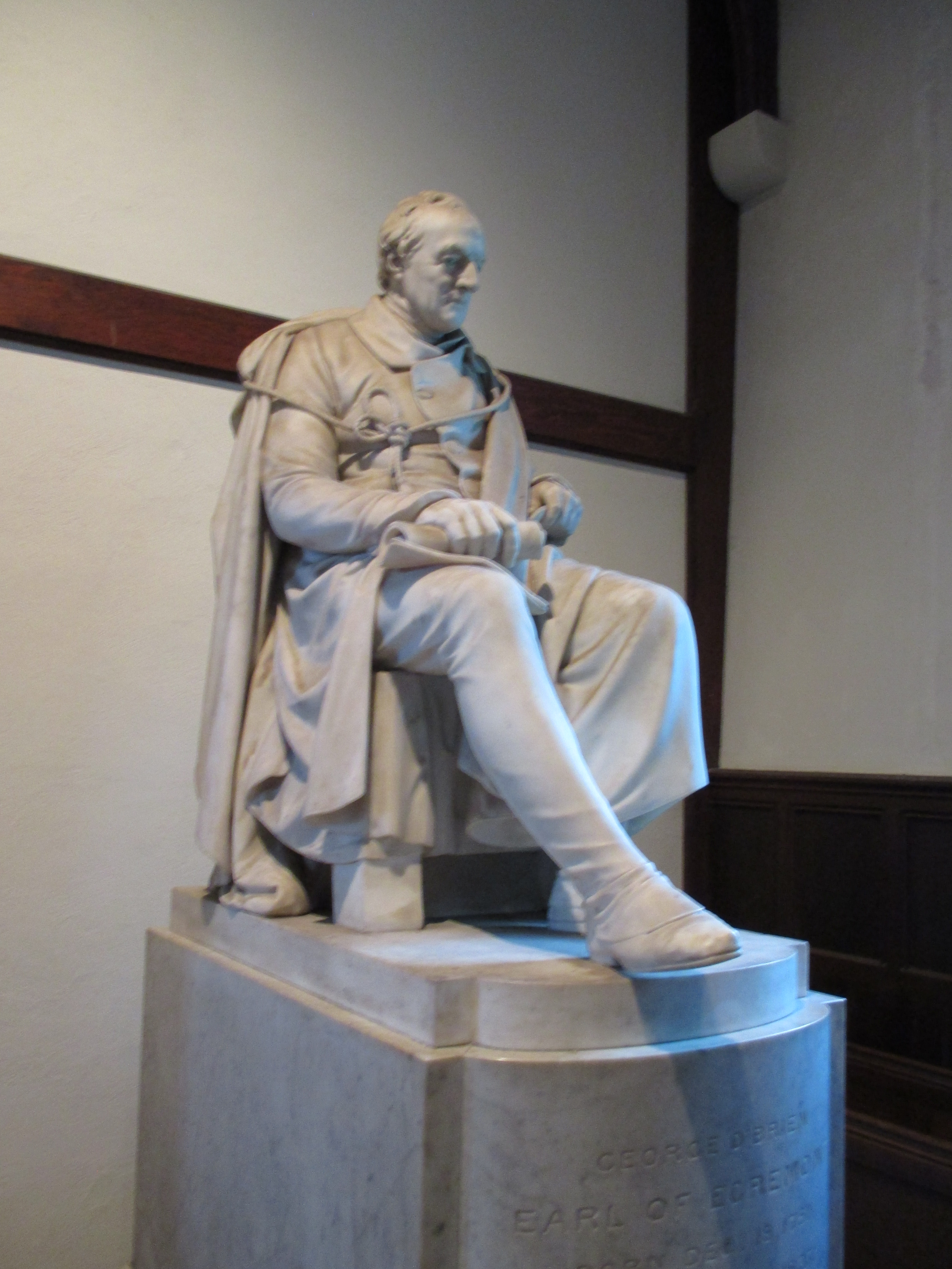 Monument to George Wyndham, 3rd Earl of Egremont in St Mary's Church, Petworth, West Sussex. It was sculpted by Edward Hodges Baily.